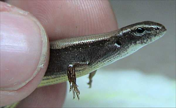 Scincella lateralis form Texas. Photographer: User:Dawson